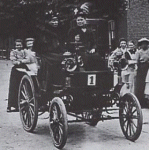 Car from the dutch factory Groninger Motor-rijtuigen Fabriek, with the first license plate in The Netherlands from 1898. This picture was property of the Dutch license plate registration services, but has been released.